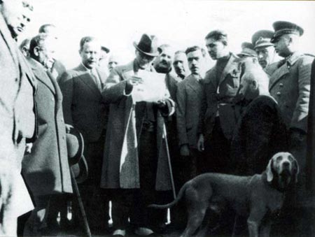 Mustafa Kemal's Turhal visit, 1930